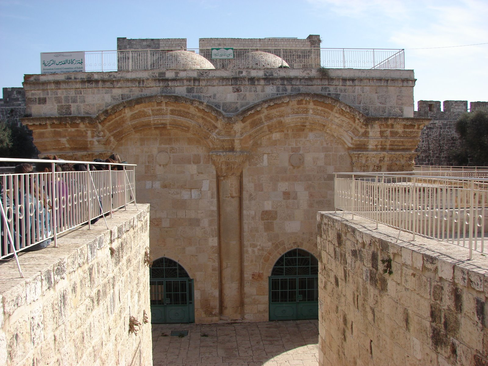 Al-Aqsa Mosque